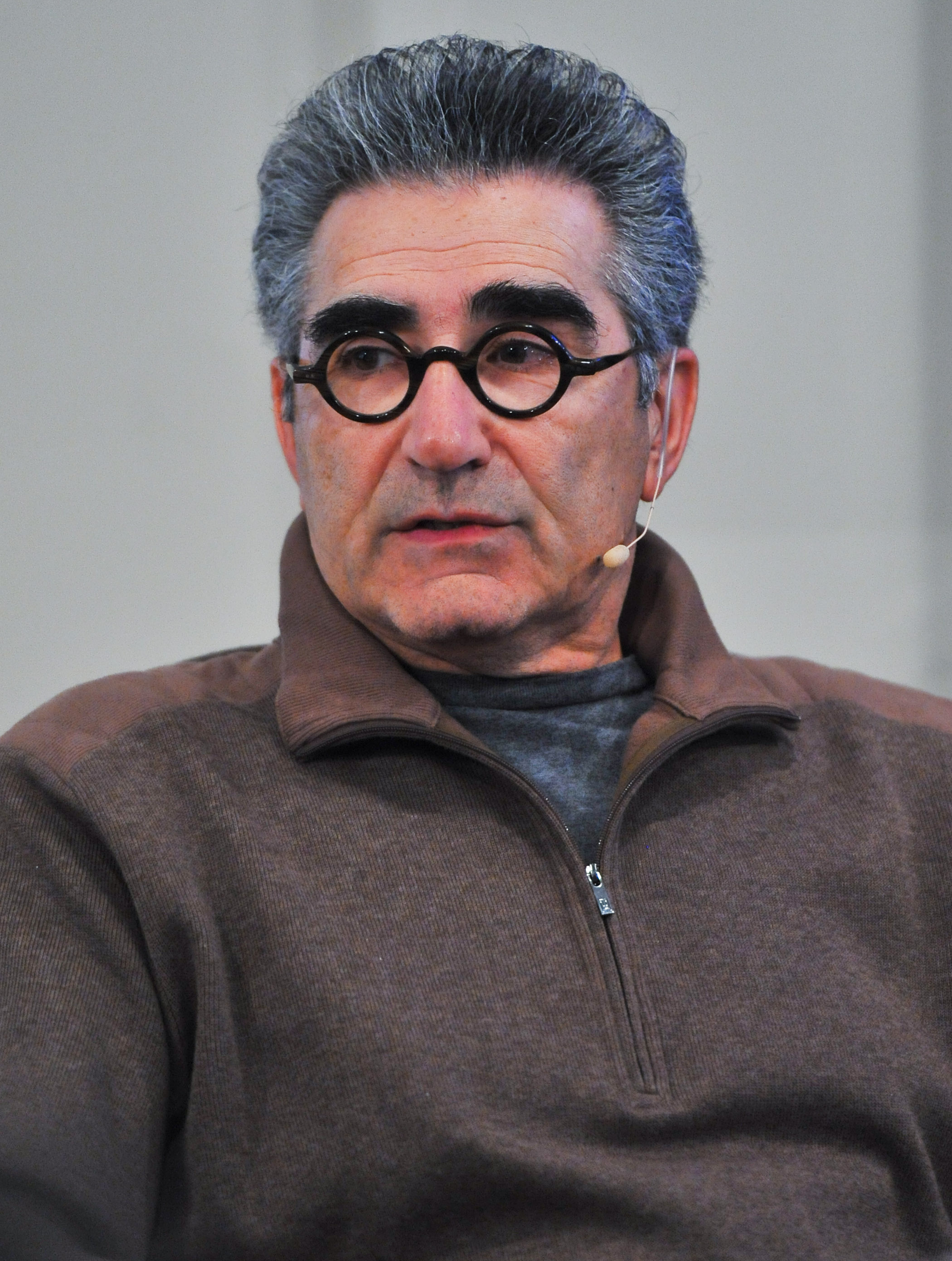 Eugene Levy at the Telefilm Canada Feature Comedy Exchange 2012.